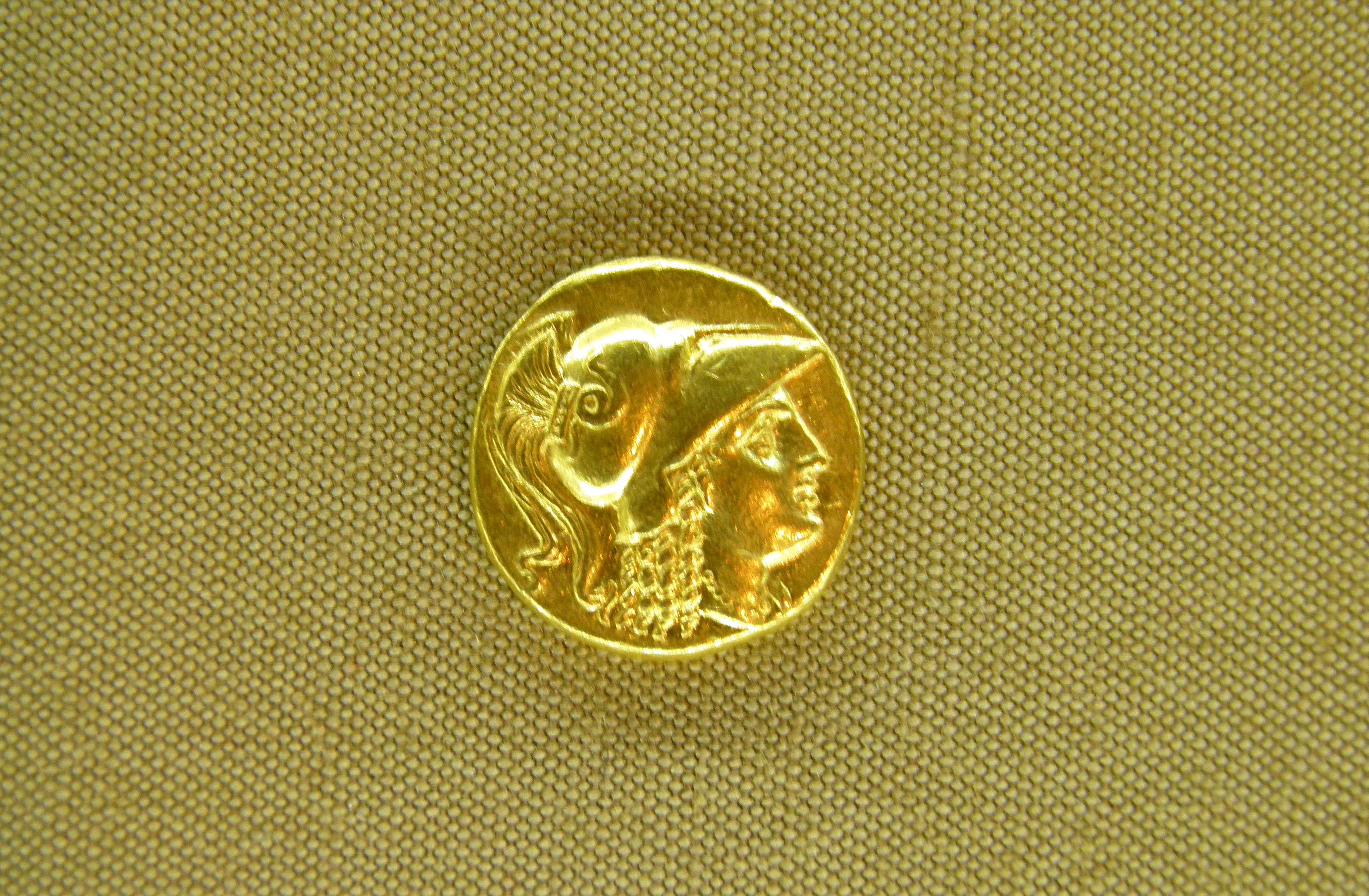 Alexander the Great, coin of Macedonia, 336-323 BC, Archaeological Museum, Pella